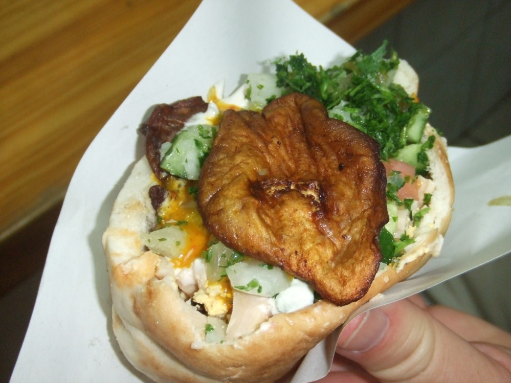 Sabich, Iraqi-Jewish pita sandwich popular in Israel; main ingredients: fried eggplant, hard-boiled eggs, onions, Israeli salad, hummus & tehina, stuffed in a pita